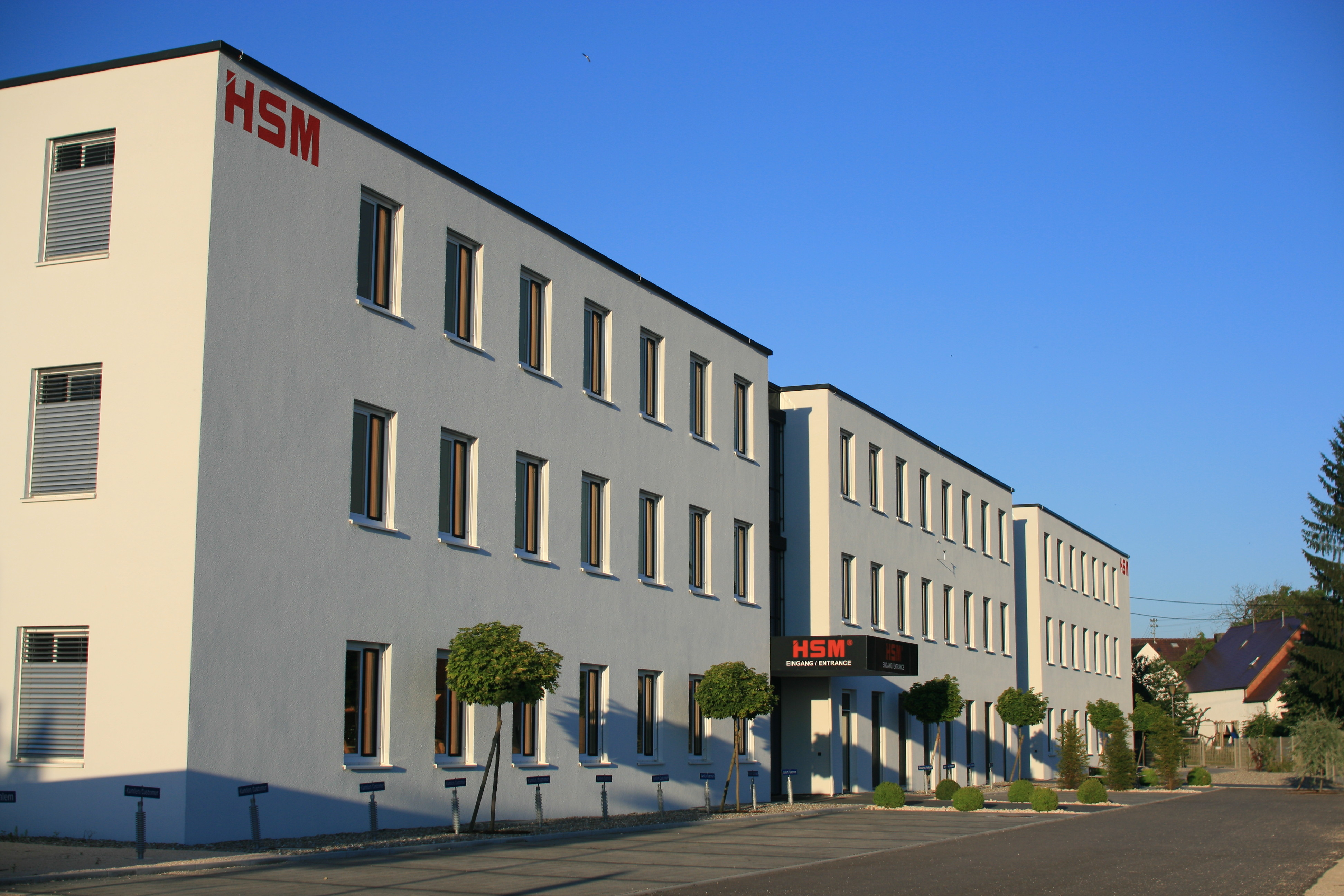 Hermann Schwelling Maschinenbau in Frickingen